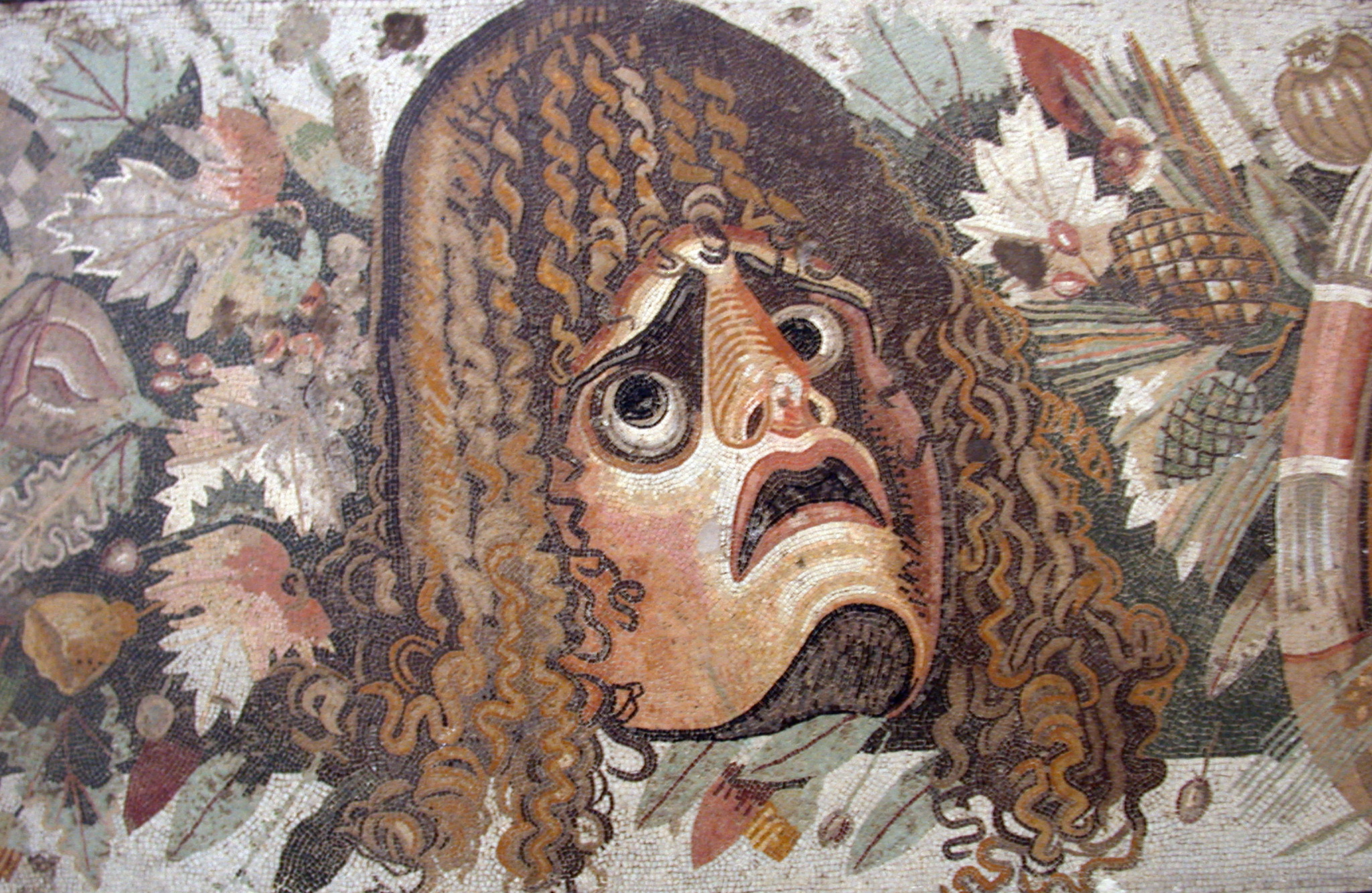 Masks, leaves and fruit, detail from a Roman mosaic.